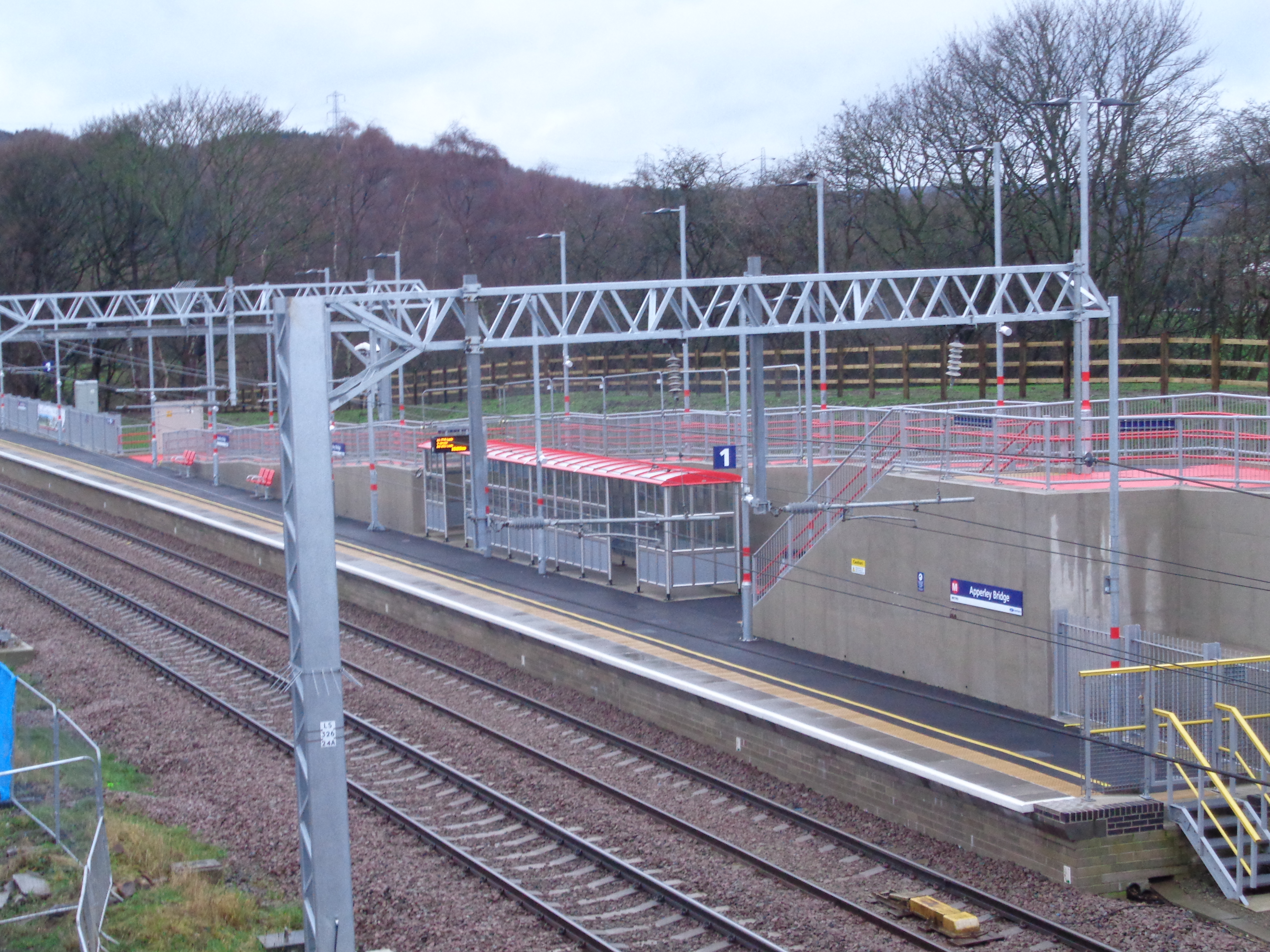 Platform 1 (Leeds bound), Apperley Bridge railway station in Apperley Bridge, Bradford, West Yorkshire. The railway station opened on Sunday the 13th of December 2015. Taken on the afternoon of Tuesday the 22nd of December 2015 (nine days after opening).